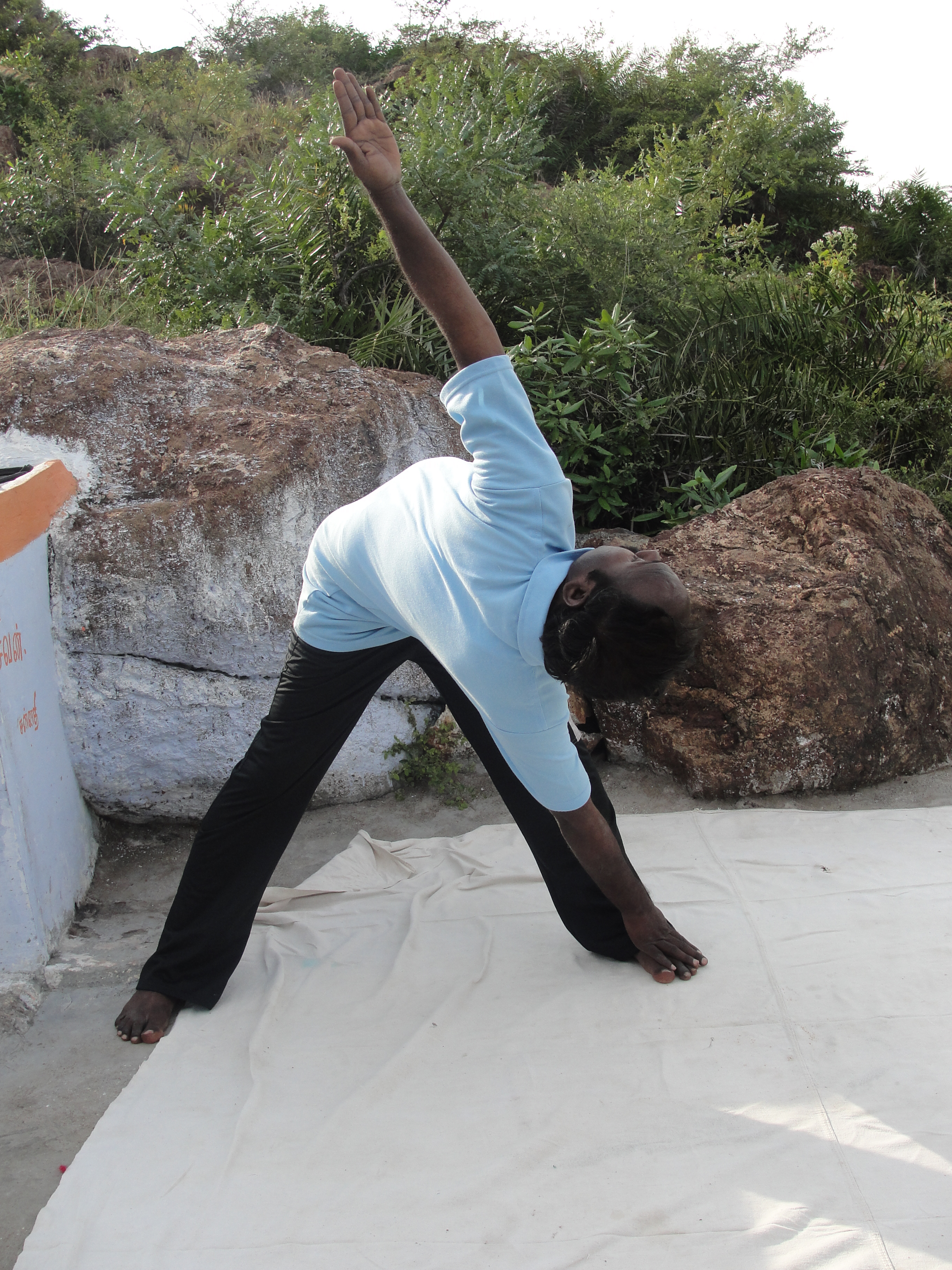 A style of parivrtta trikonasana